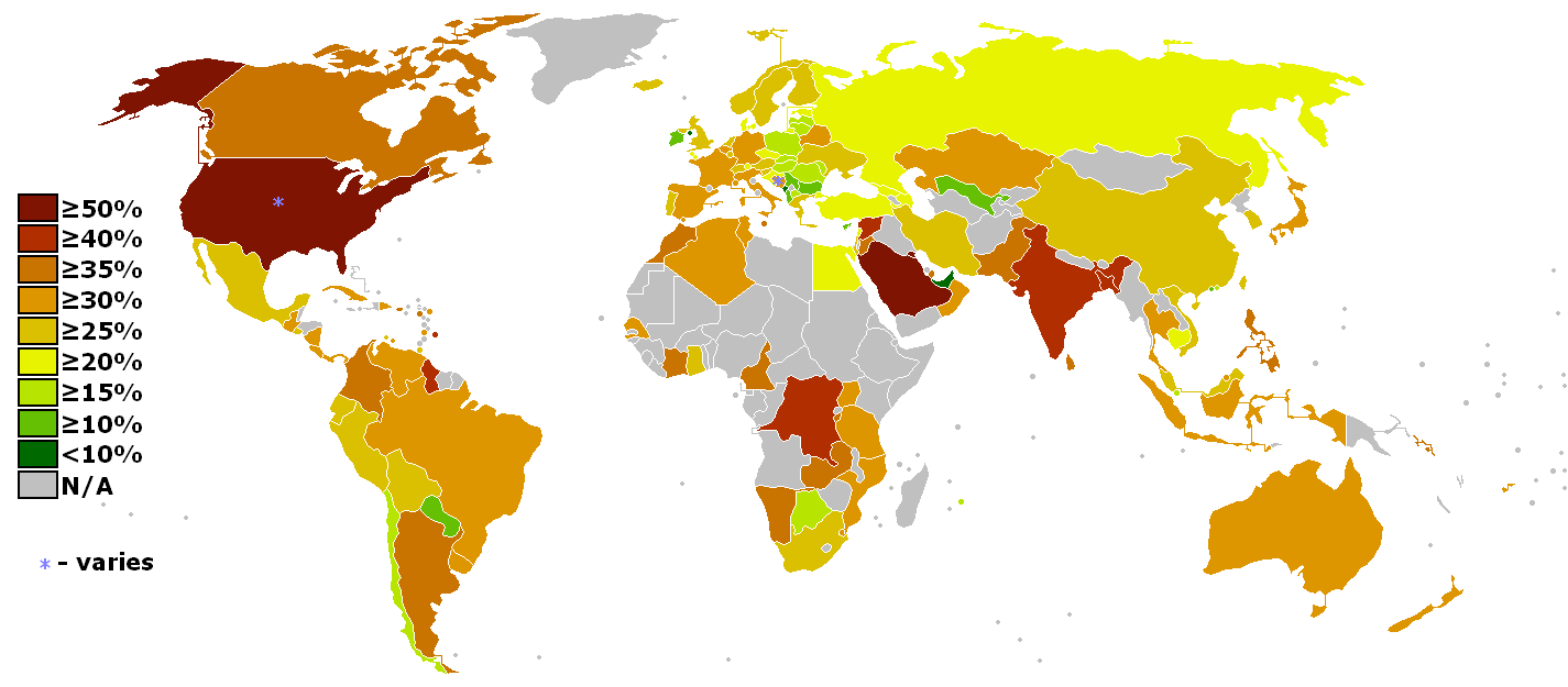 Tax rates around the world: Corporate tax rates (the highest rate) by countries